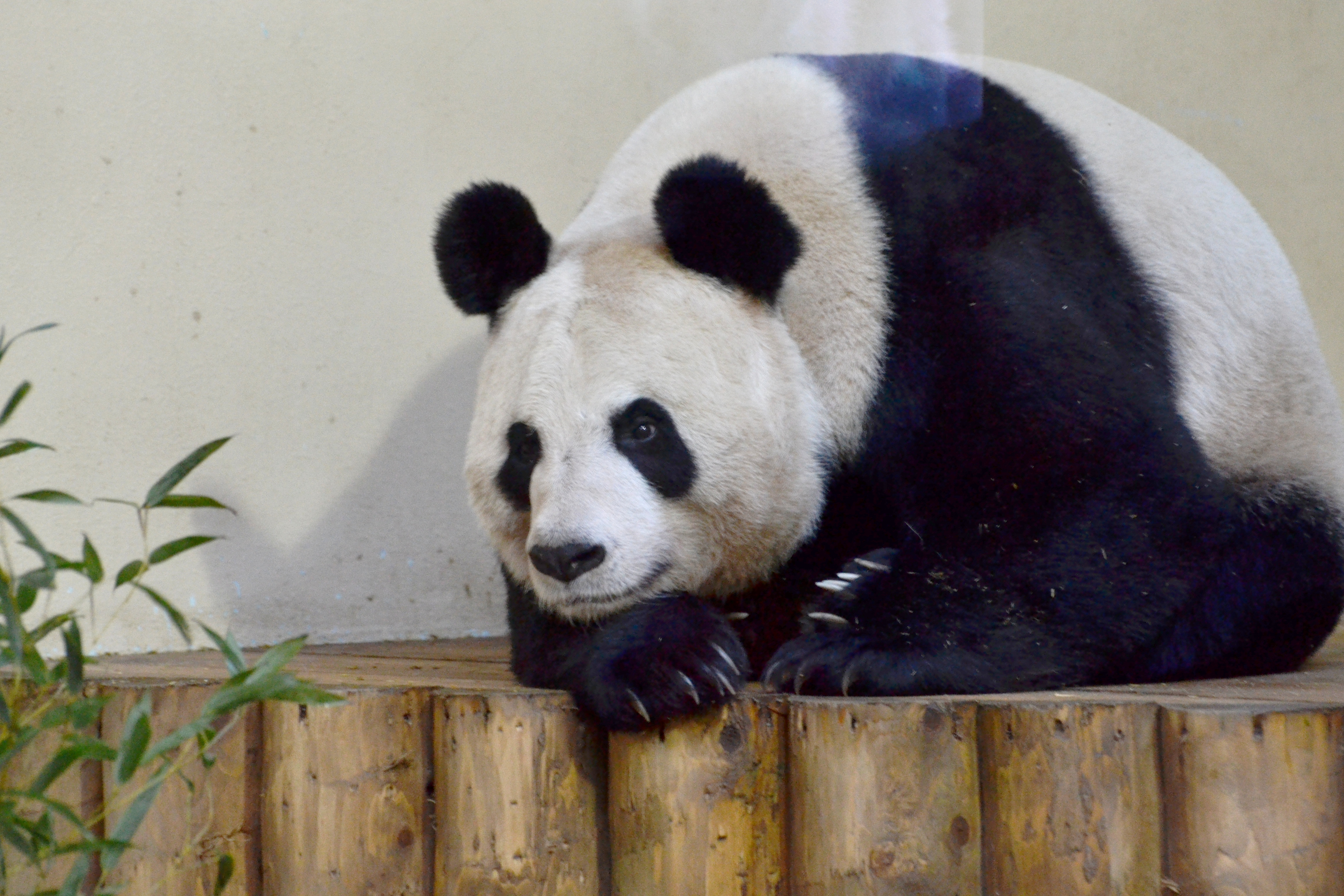 Tian Tian, female Giant Panda, on display in Edinburgh Zoo, Jan 2012